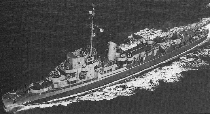 The U.S. Navy destroyer escort USS Eldridge (DE-173) underway at sea, circa in 1944.